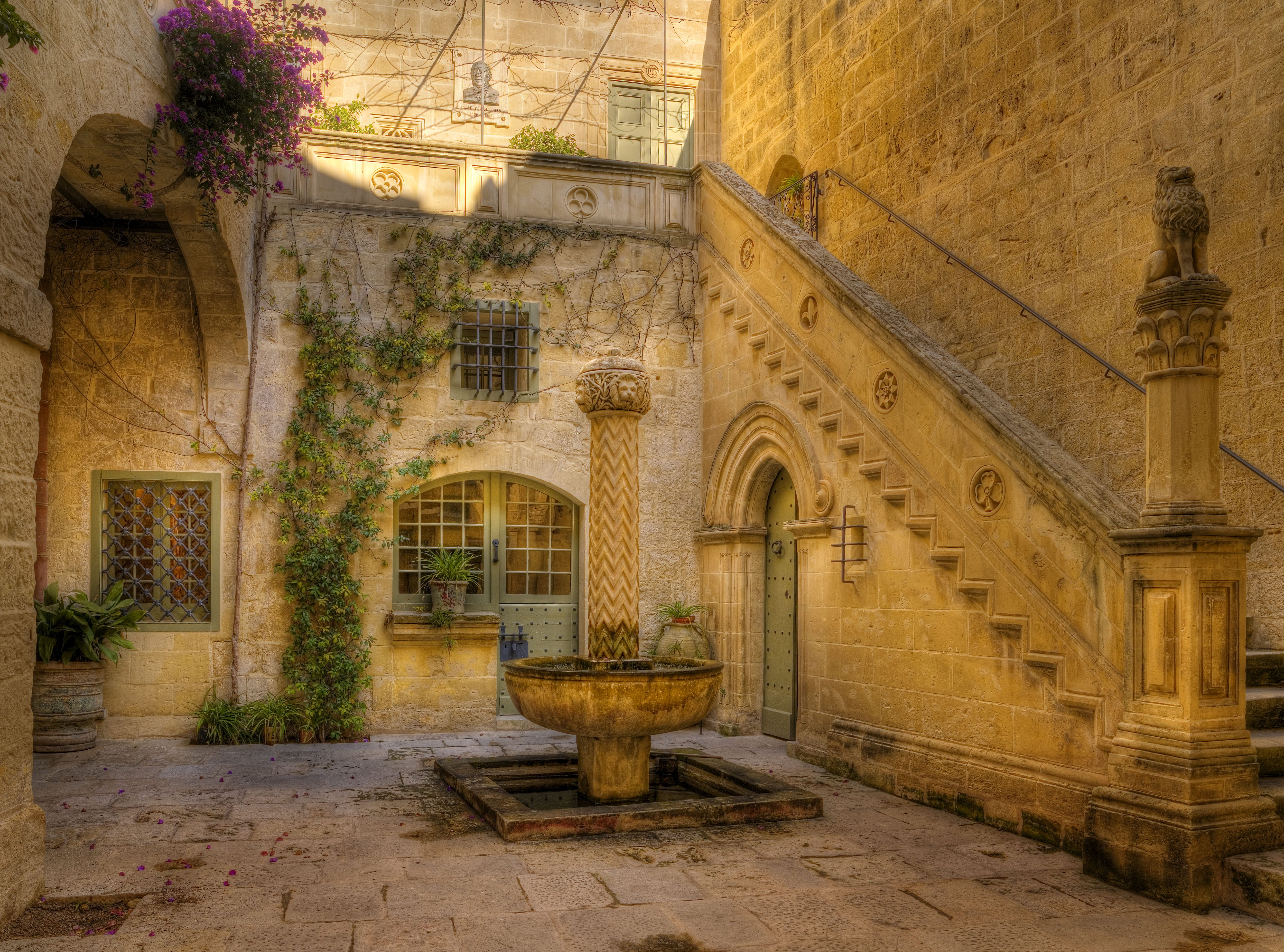 The Courtyard